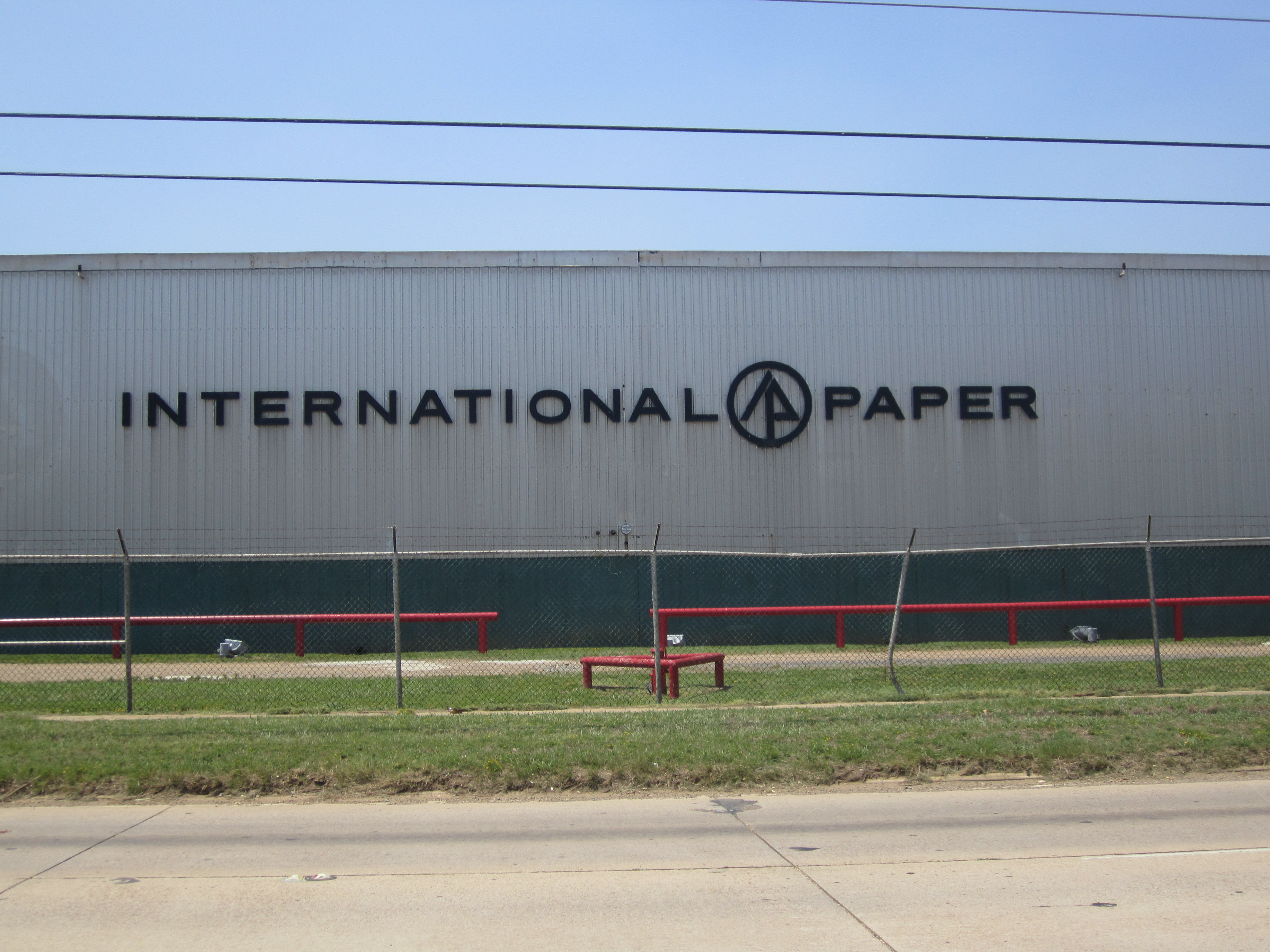 I took photo of International Paper Co. facility in Cullen, LA, with Canon camera.